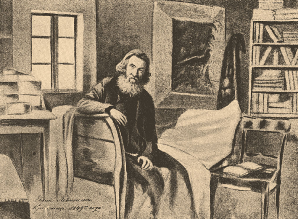 Illustration from Brockhaus and Efron Jewish Encyclopedia (1906—1913)